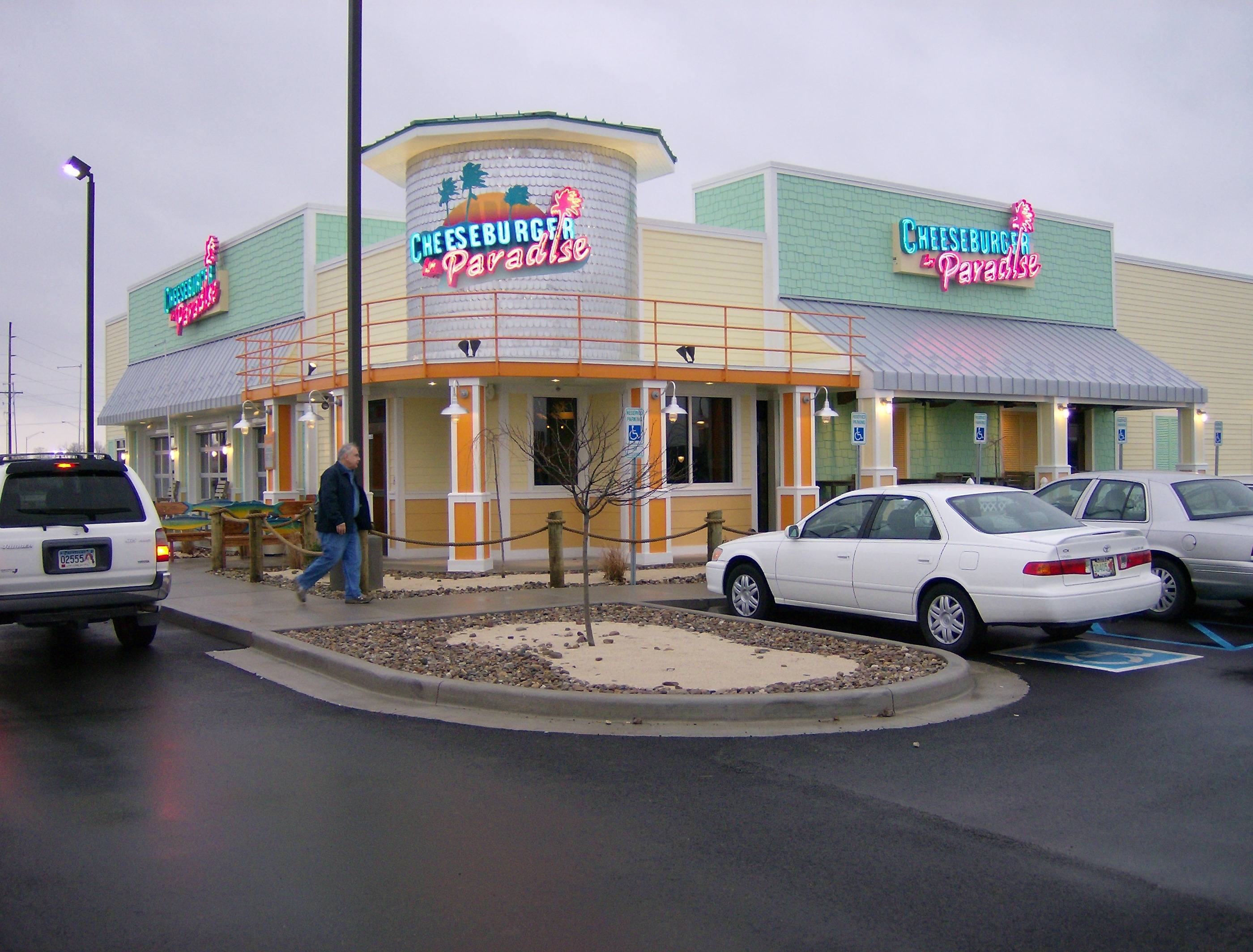 The exterior of a Cheeseburger in Paradise Restaurant